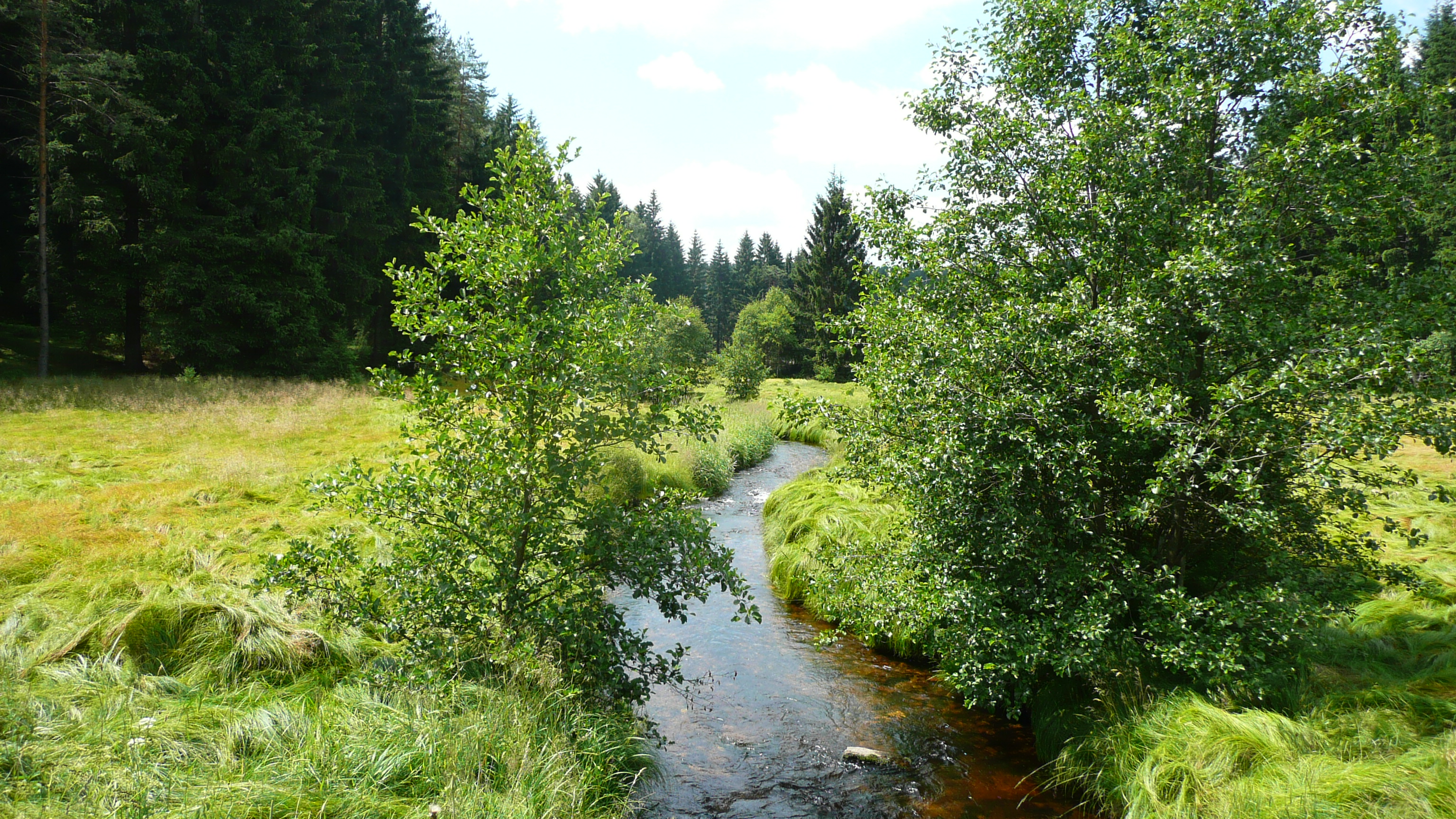 Small river in Český les.